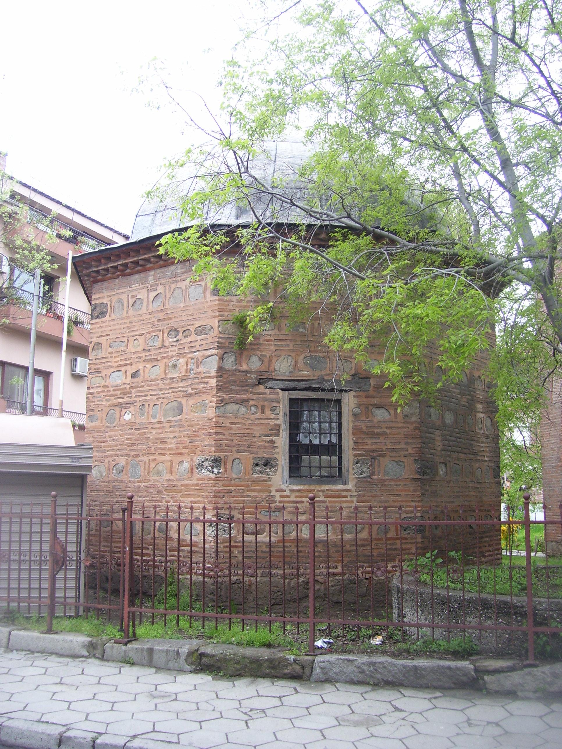 Turbe of Şahabettin Pasha in Şahabettin İmaret Mosque, Plovdiv, Bulgaria.